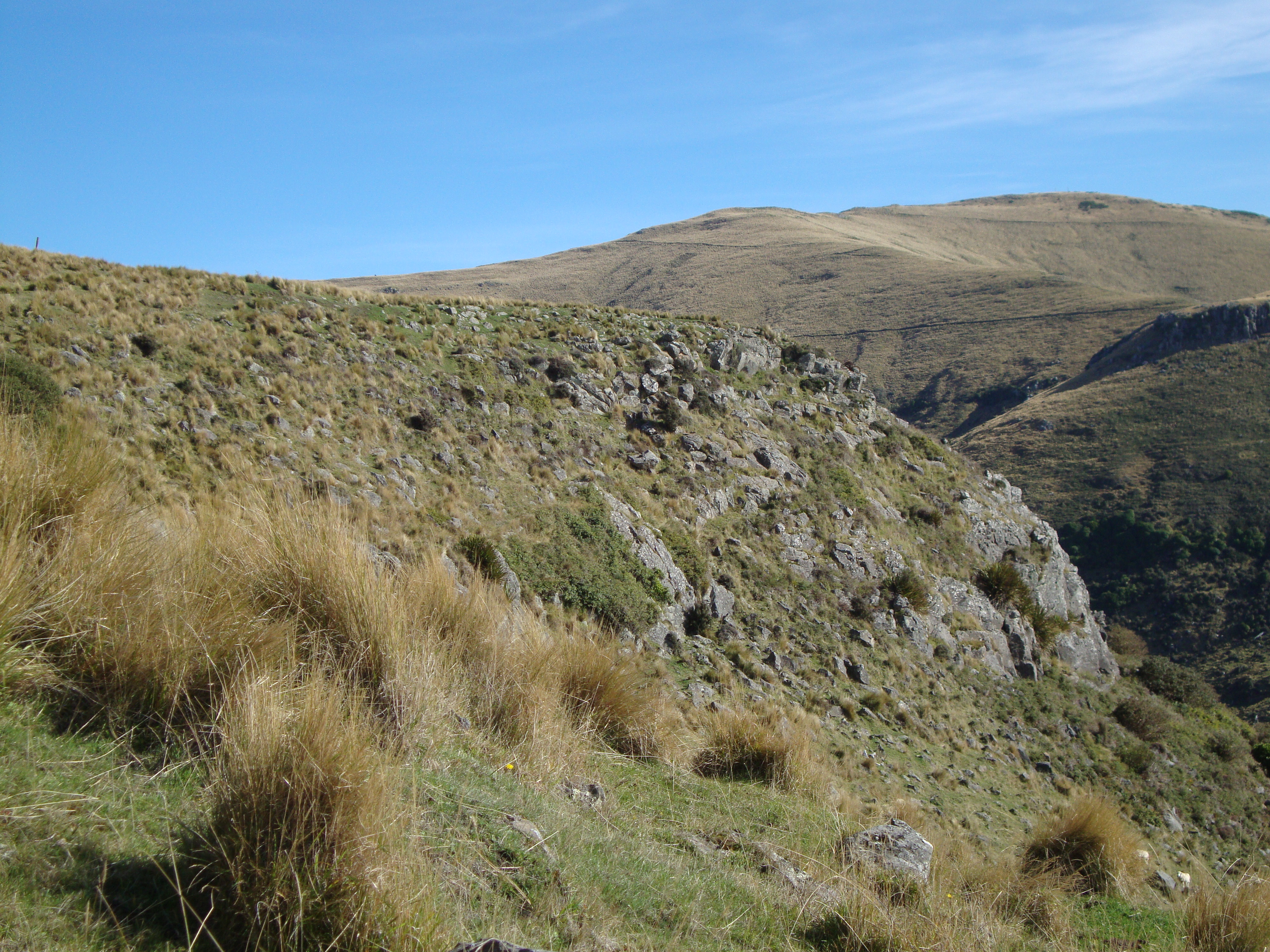 Mount Herbert as viewed from The Monument